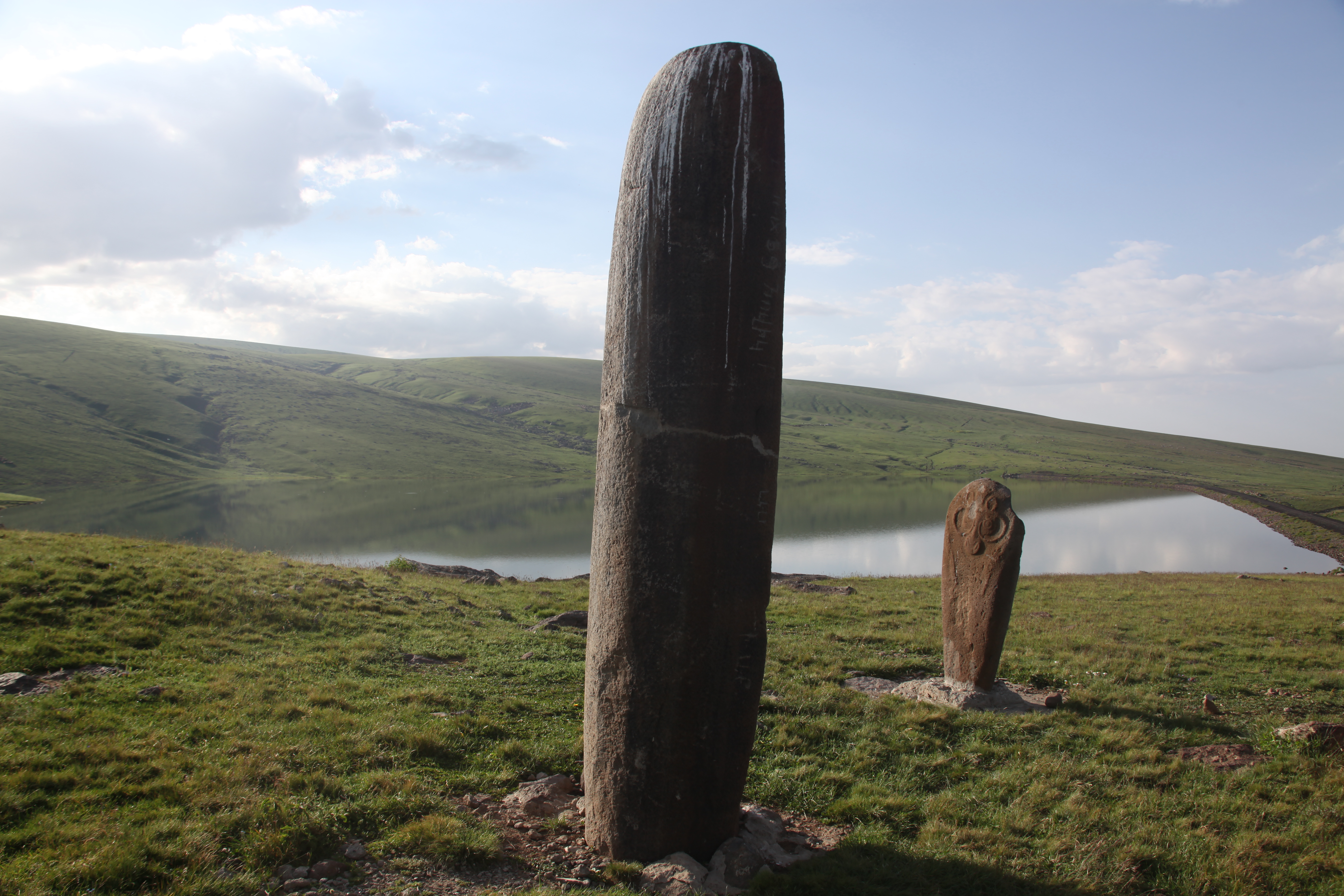 Two menhirs near the village Goght, dating back to 2-3 millennia BC. Menhirs are known as Vishaps in Armenian, literary meaning Dragon stone. 26/23